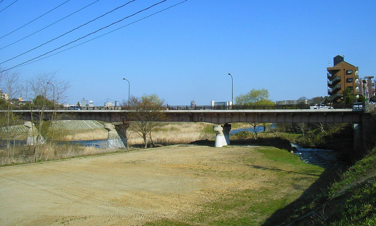 Ushigoe Bridge of the Hirose River. Sendai, Miyagi prefecture, Japan.